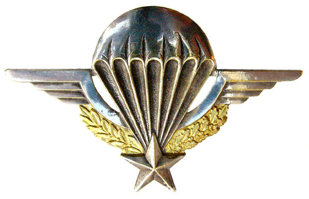 Military Parachutist Badge French patent. Symbols: The parachute is you, the wings of a great Saint Michel you support, the star guides you, you remember the laurels of former glory, the crown of oak strength that characterizes the paratroopers. But death awaits you, it is represented by the black between the lines.